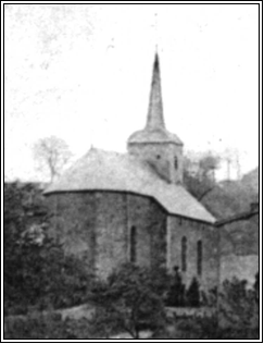 Rear View of Martincourt-sur-Meuse's church. The choir.